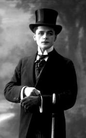 Portrait of Norwegian actor and sculptor Sæbjørn Buttedahl (1876-1960). Image is from late 19th-century. Low resolution, small image size. Image is fair use, as the author would be deceased for at least 70 years and the copyright would be expired. The image appears to be a promotional image that would have been circulated to the public in magazines, stage doors and post cards.